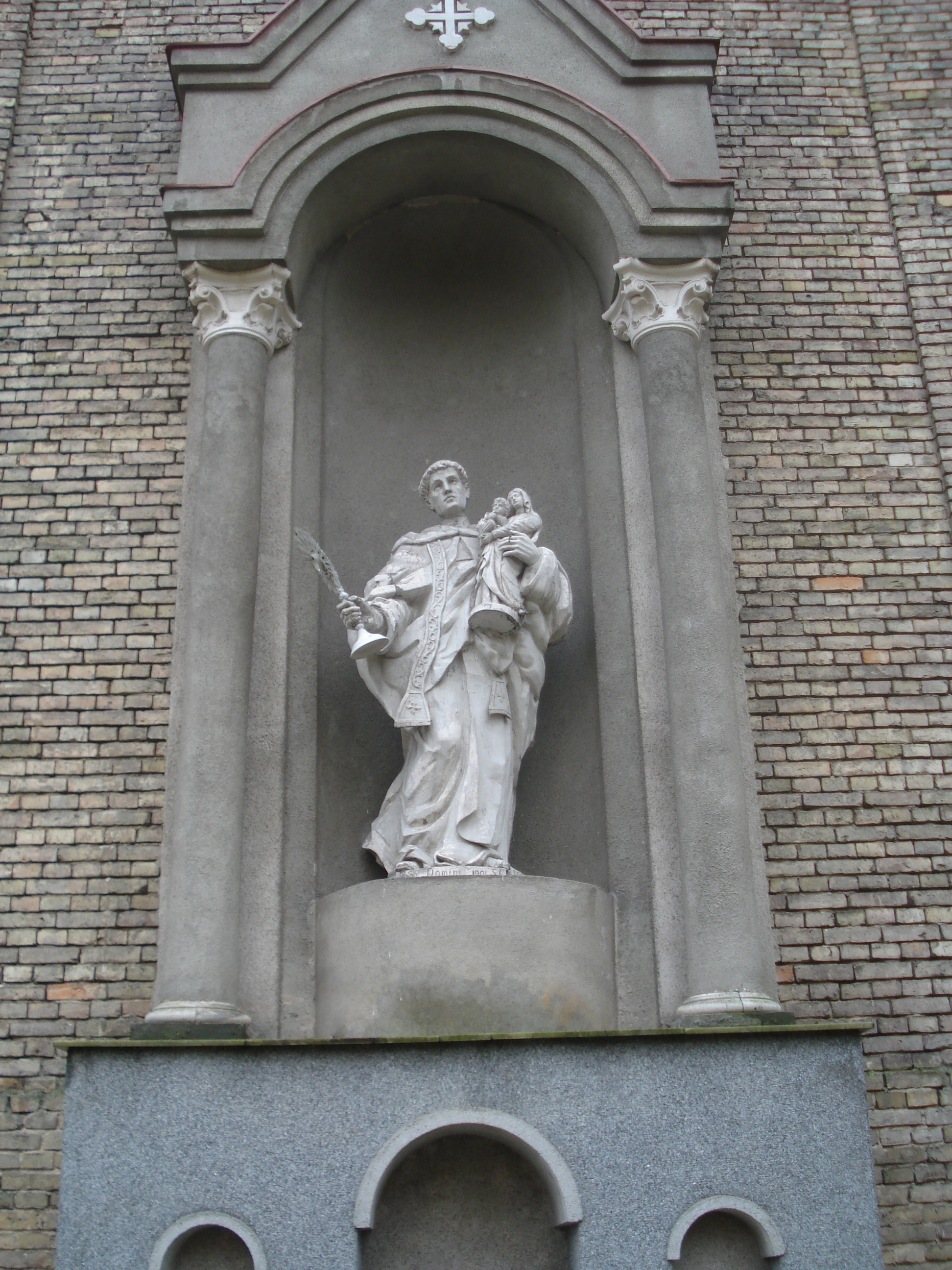 Copy of the statue of Saint Hyacinth by Bolesław Bałzukiewicz. Church of the Immaculate Conception of Blessed Virgin Mary in Vilnius (Sėlių g. 17)